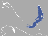 Baikal seal (Pusa sibirica) range